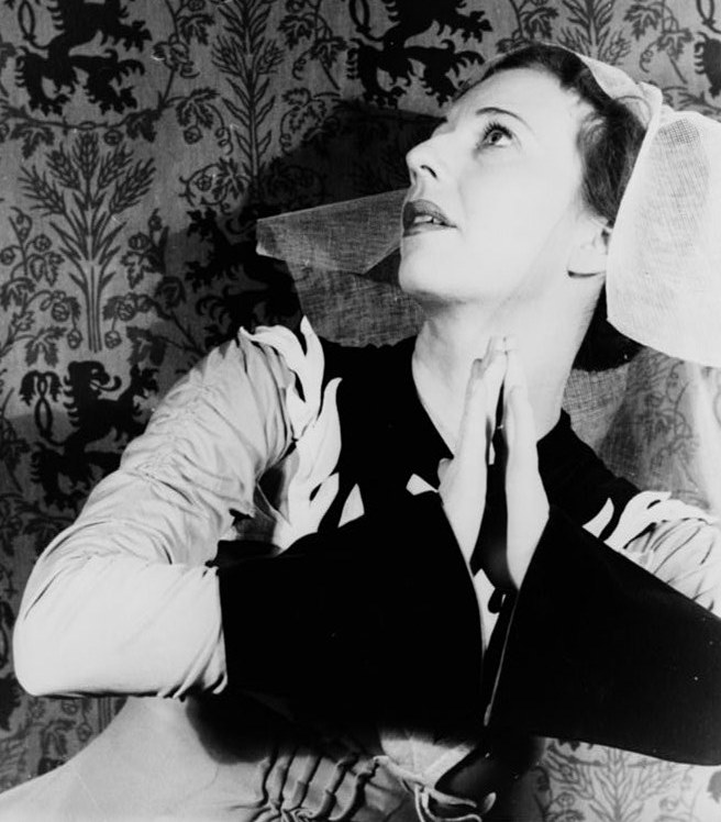 American dancer & choreographer Agnes de Mille (1905-1993) playing 'The Priggish Virgin' in the ballet Three Virgins and a Devil (Tre Vergini e un Diavolo), music by Ottorino Respighi, choreography by Agnes de Mille, Majestic Theatre, Broadway